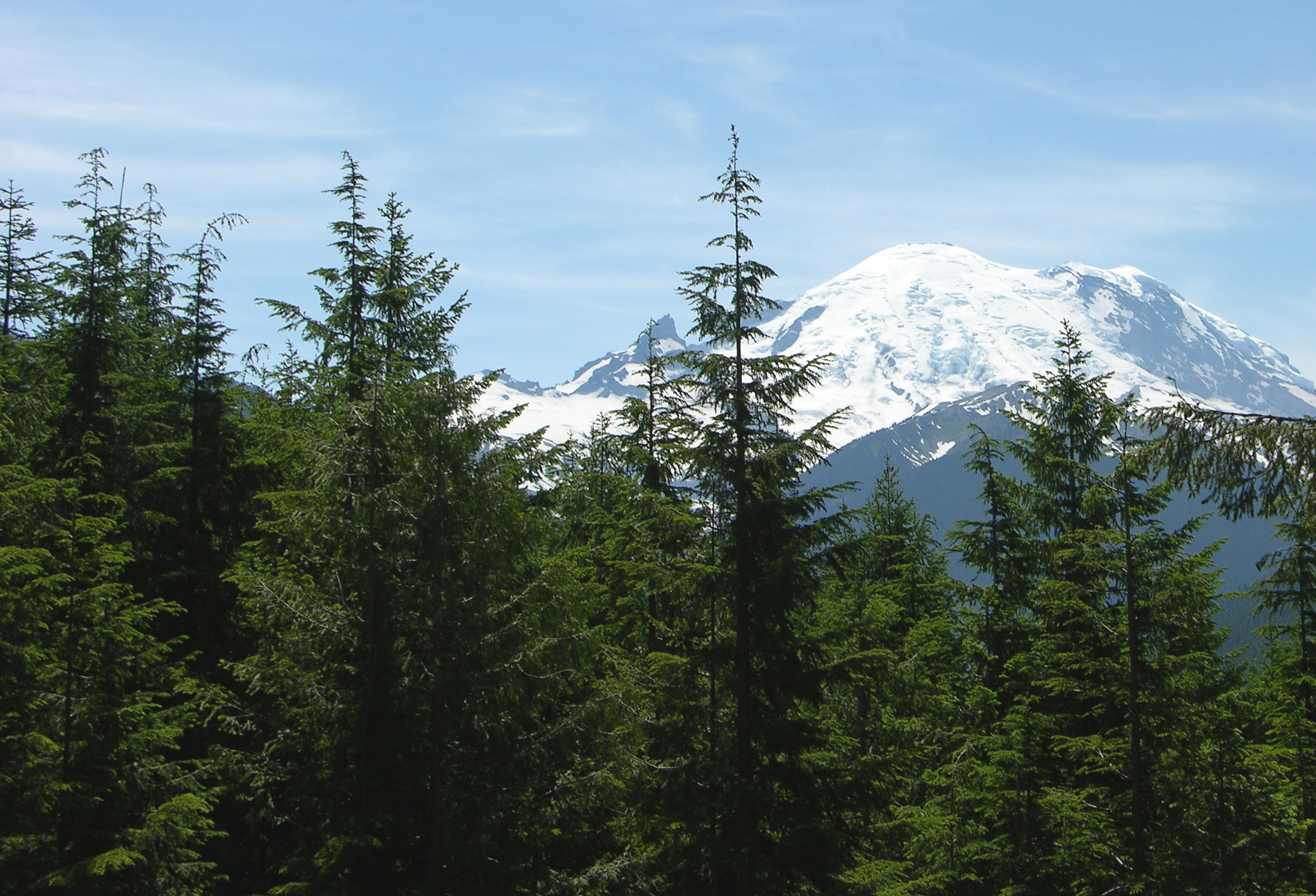 Tsuga heterophylla, near Mt. Rainier, Washington, USA.